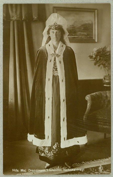 Alexandrine (1879-1952) queen of Denmark in Icelandic national dress. The coat is called "möttull" and the dress is called "skautbúningur". This dress was made by Icelandic women and was a gift to the queen in her visit to Iceland 1921. The dress is now in Amalienborg.